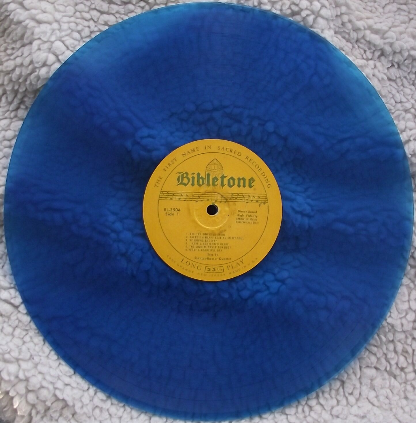 12-inch blue-vinyl LP Record by the Stamps-Baxter Quartet on the Bibletone Records label. Photograph of record from author's collection.